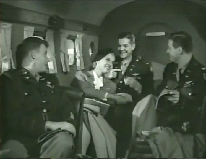 A screenshot of American actress Charles Drake, Lizabeth Scott, Robert Cummings and Don DeFore in You Came Along (1945) Other information A search of the US Copyright Office catalog shows negative results